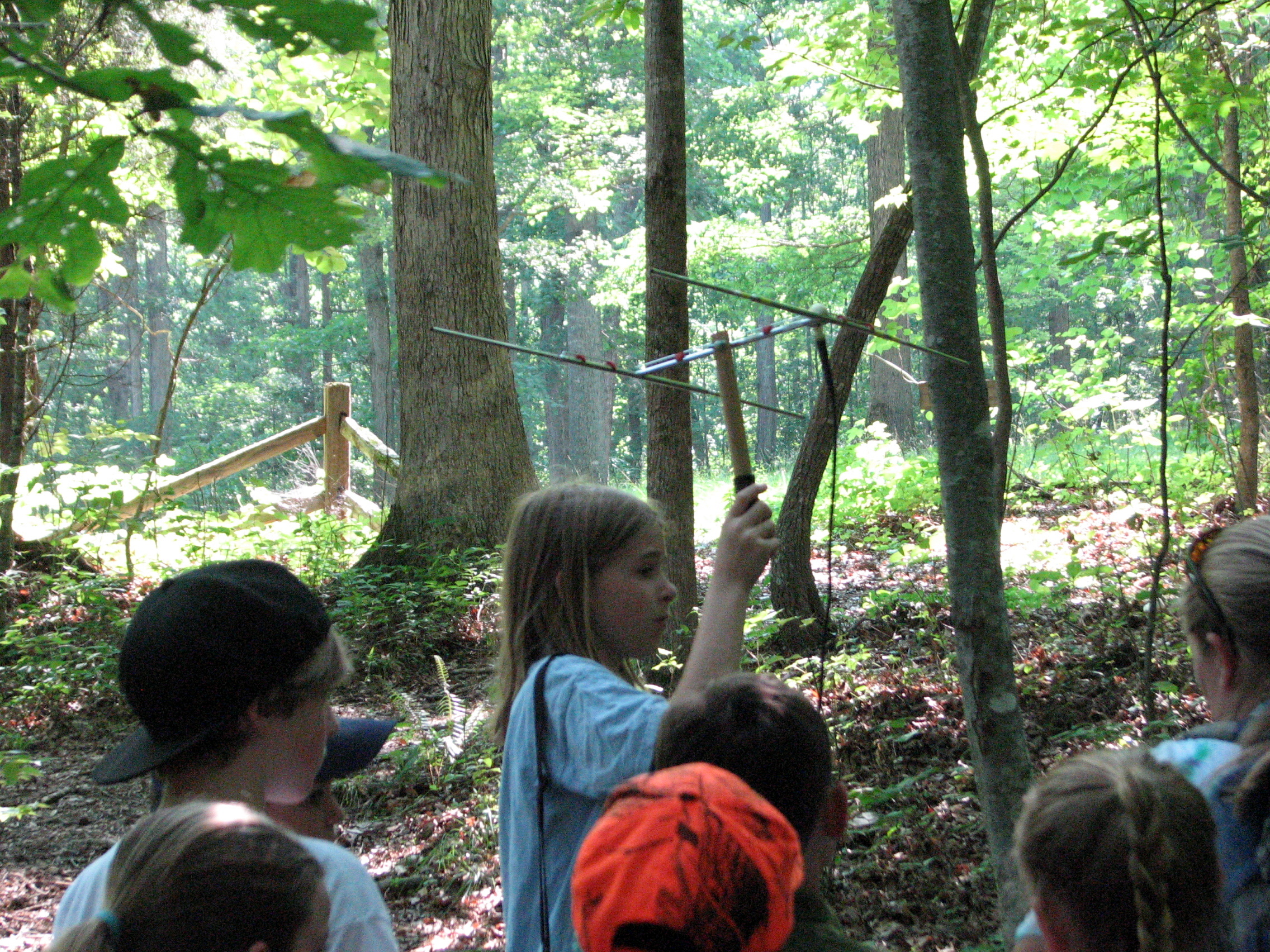 "Junior Ranger" environmental education program at Haw River State Park, North Carolina, US.